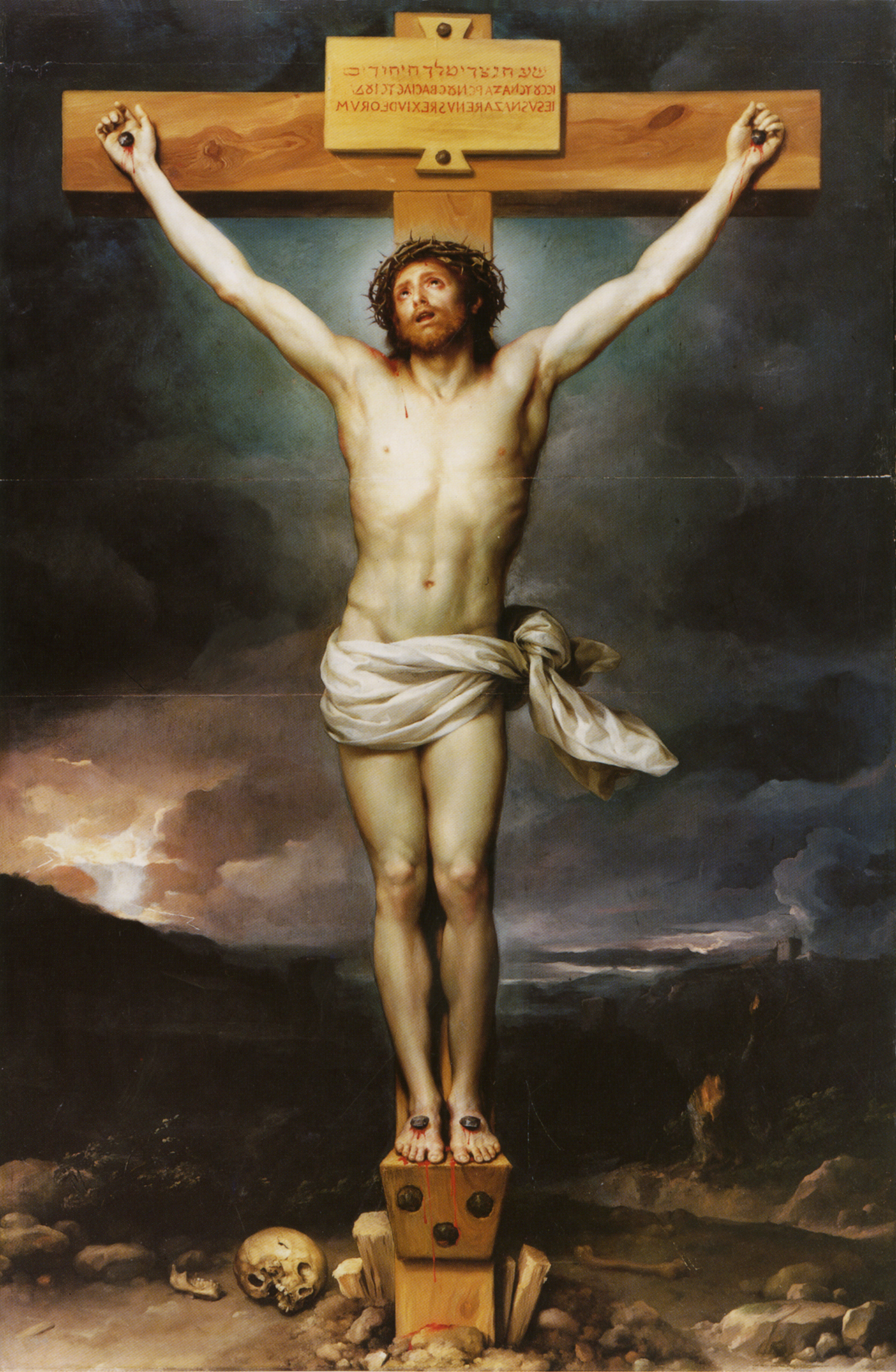 Now in the Palacio Real, Aranjuez, in the former bedroom of King Carlos III.